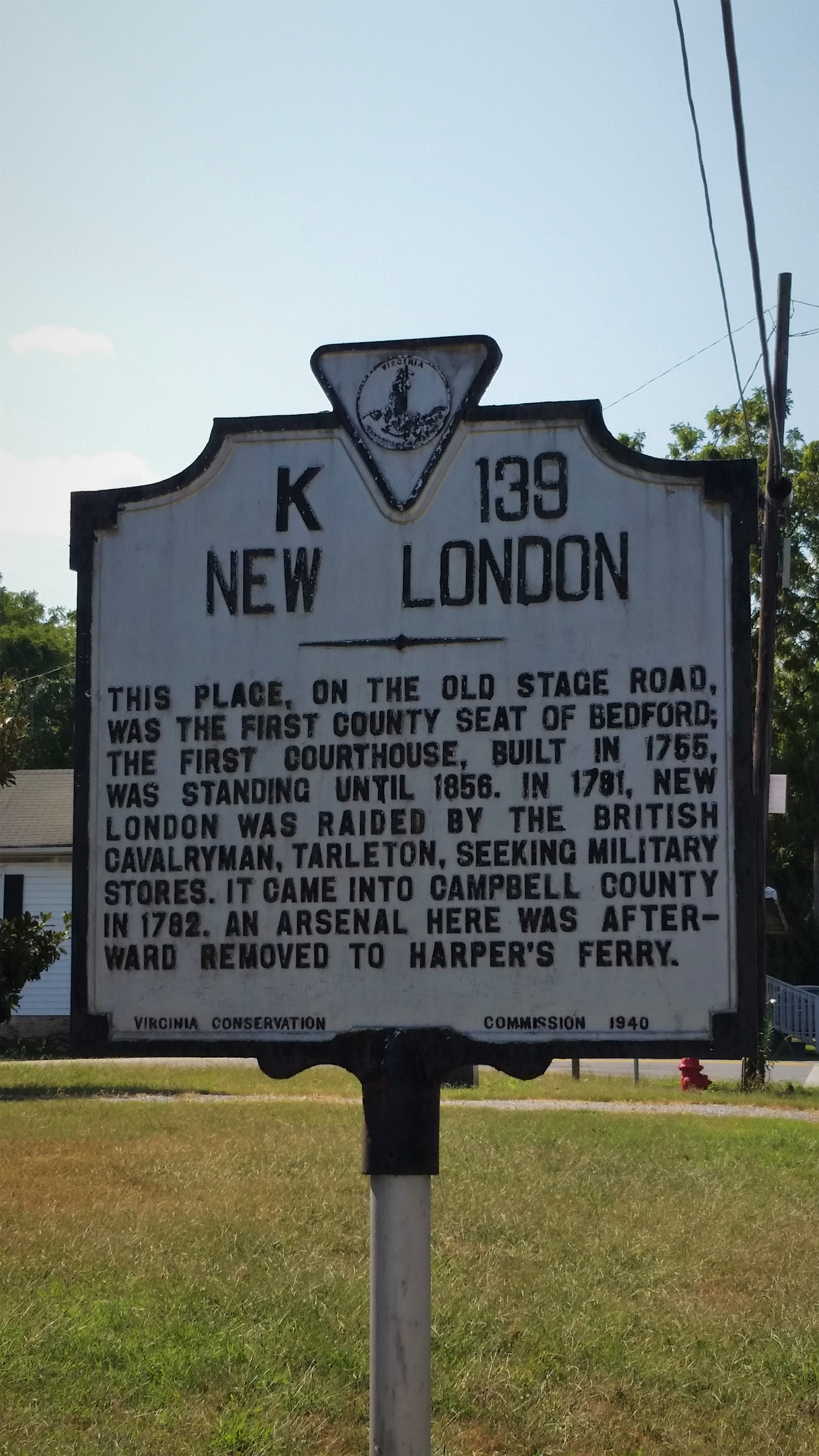 Marker at New London that incorrectly claims Tarleton raided New London.